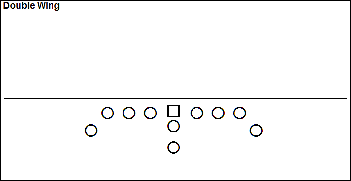 In the broadest of descriptions it is a formation with two tight ends and two wingbacks.